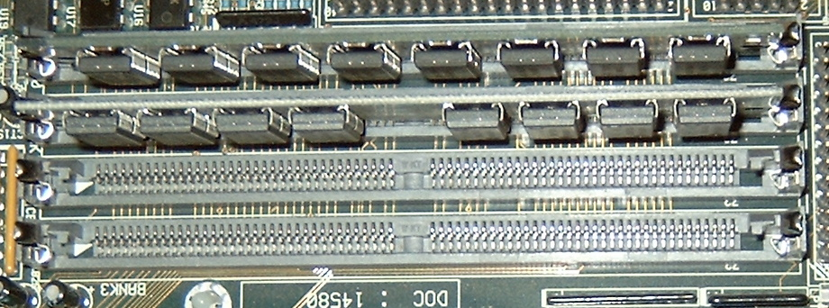 4 72-pin PS/2-SIMM-slots on an i486 mainboard, 2 populated, 2 empty